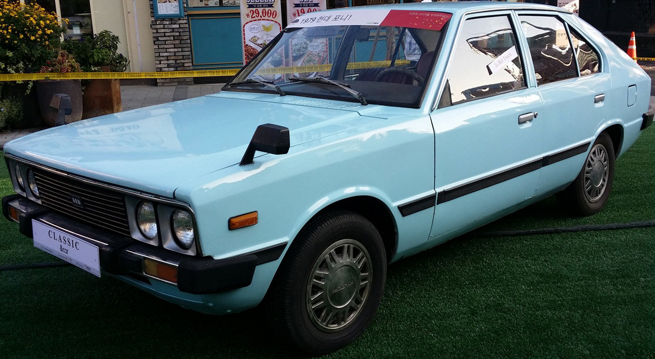 Hyundai Pony